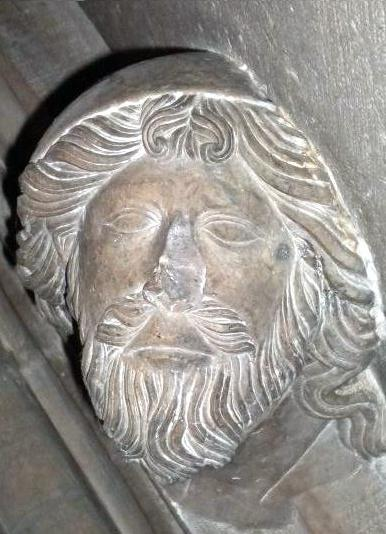 Stone bust from about 1360 of Duke Canute (Porse) of Hallandia (as identified by Prof. Jan Svanberg), second husband of Duchess Ingiburga and step-father of King Magnus IVPlace: Linköping Cathedral, Sweden